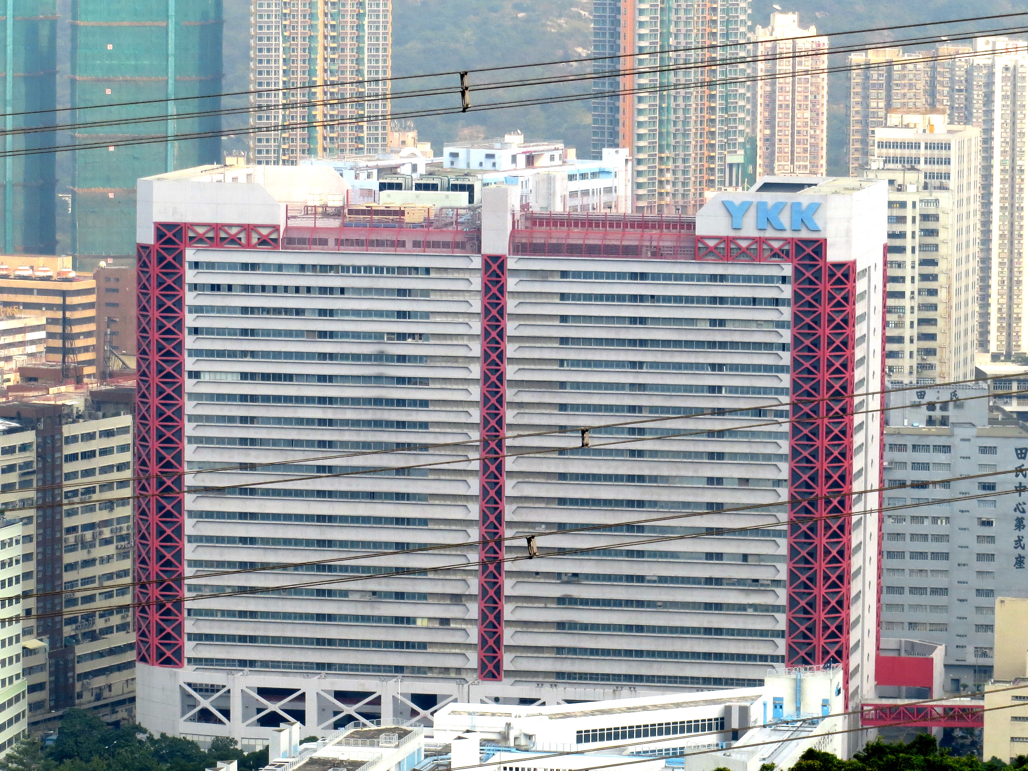 YKK Building, 2 San Lik Street, Tuen Mun, New Territories, Hong Kong.